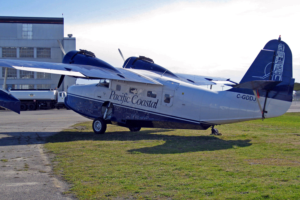 Grumman G-21A Goose C-GDDJ of Pacific Coast Airlines at Vancouver Airport in 2008